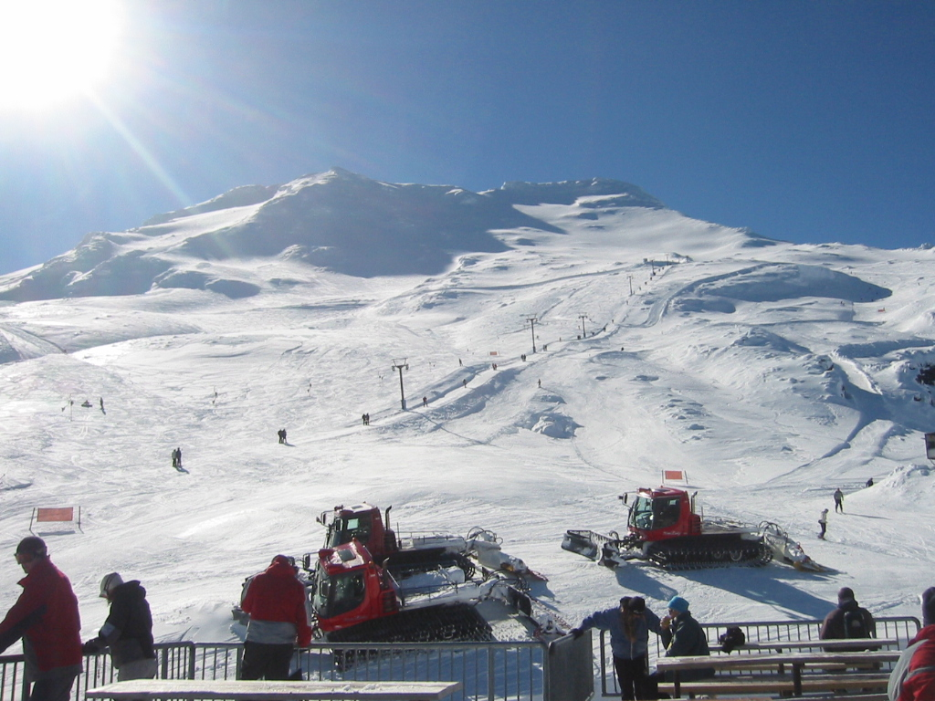 a view of the field from the base